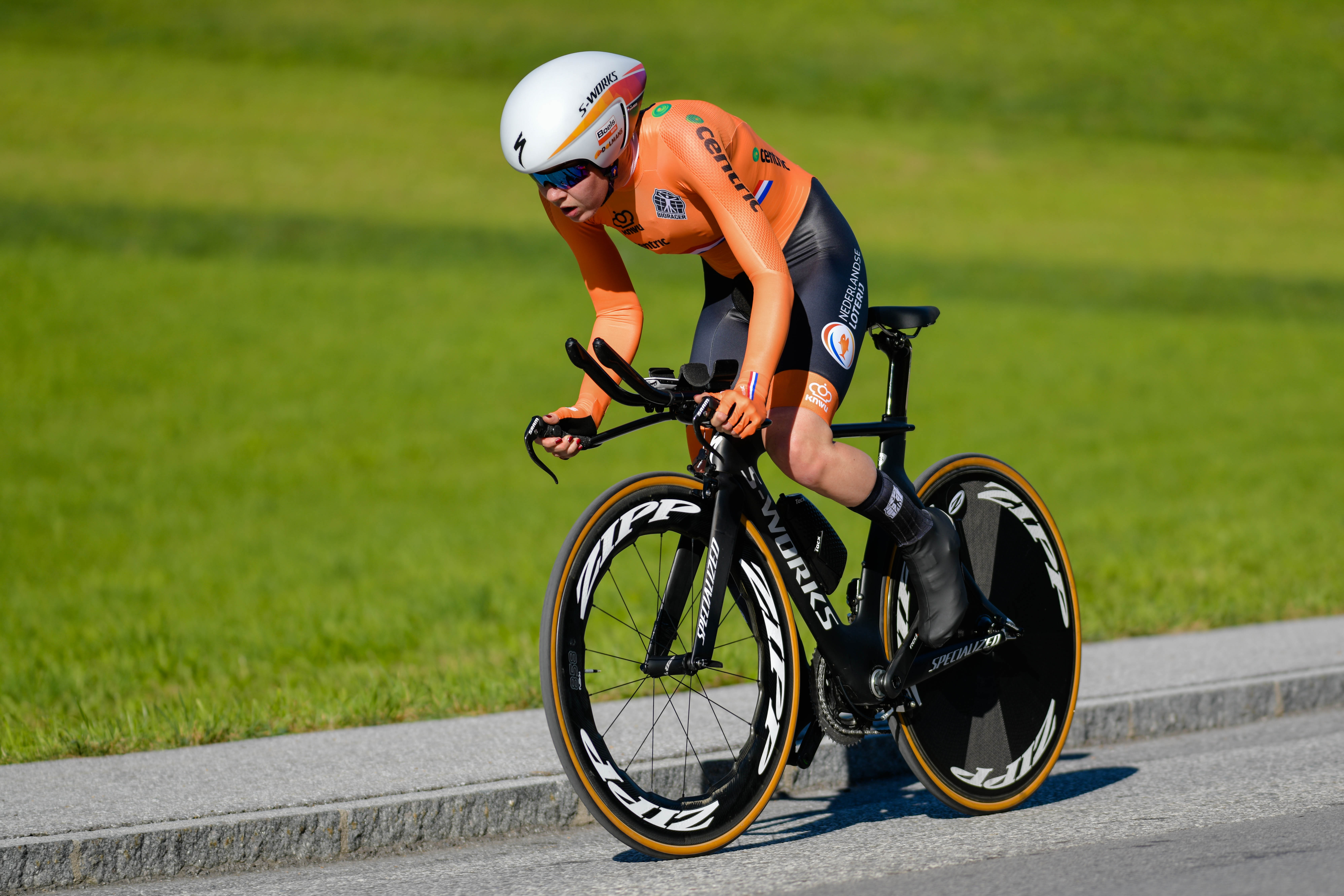 2018 UCI Road World Championships Innsbruck/Tirol Women Elite Individual Time Trial. Picture shows: Anna van der Breggen of the Netherlands